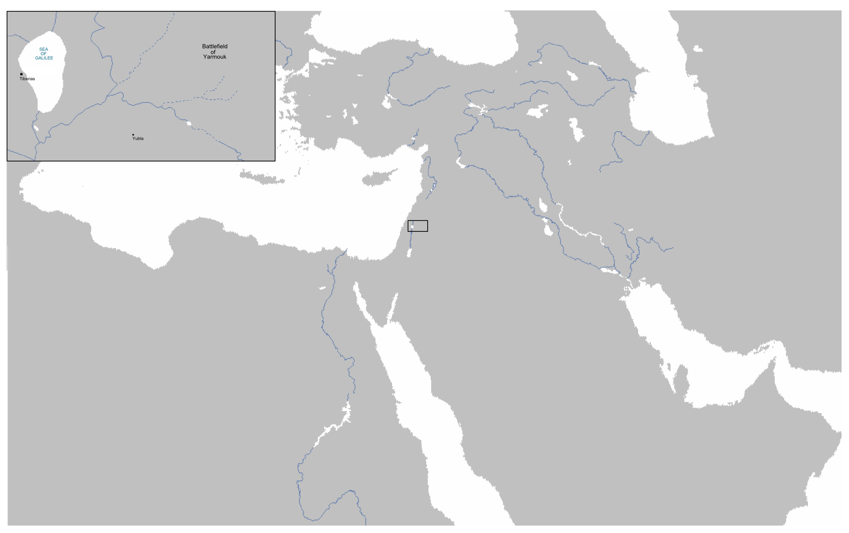 location of the battlefield of yarmouk